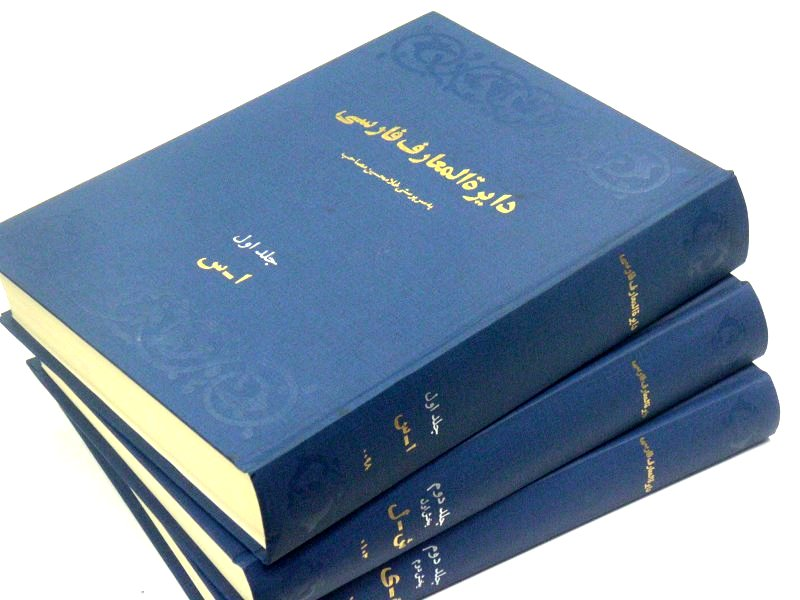 Three volumes of the 2002 edition of The Persian Encyclopedia